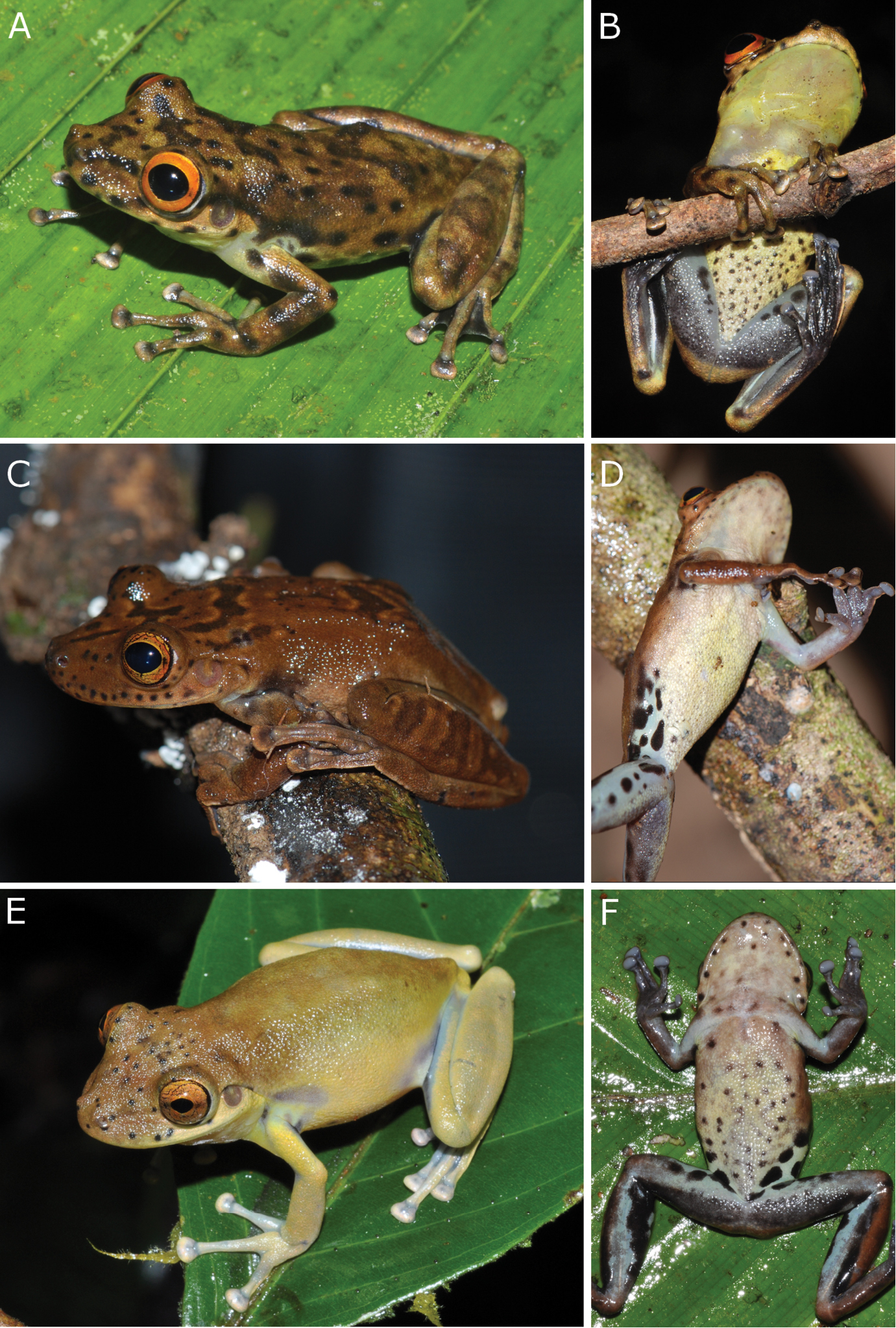 Colour in life of Scinax onca sp. n. Colour variation in life of Scinax onca sp. n. from the Purus-Madeira Interfluve, Brazilian Amazonia. A–B INPA-H 34584 (holotype), adult male from the kilometre 350 of the BR-319 highway, State of Amazonas C–D INPA-H 34591, adult female from municipality of Porto Velho, State of Rondônia E–F INPA-H 26625, adult female from the Floresta Estadual Tapauá Reserve, municipality of Tapauá, State of Amazonas. Photographs A–D and F were taken after transport of the specimens to the camp, while the image of E was taken immediately in the field.